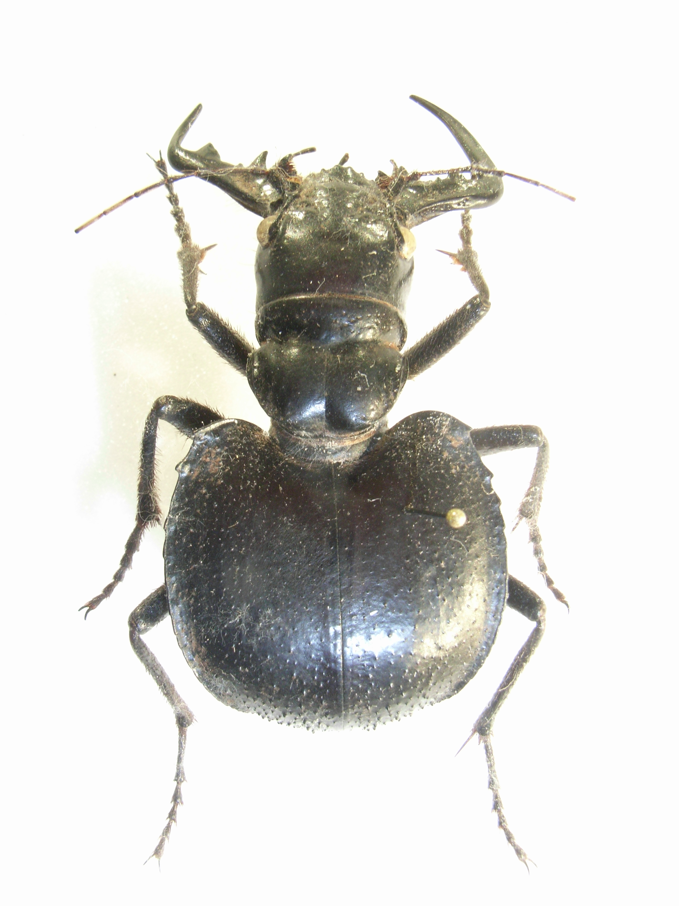 Manticora latipennis Waterhouse, 1837. Ex coll. Felix Stumpe.